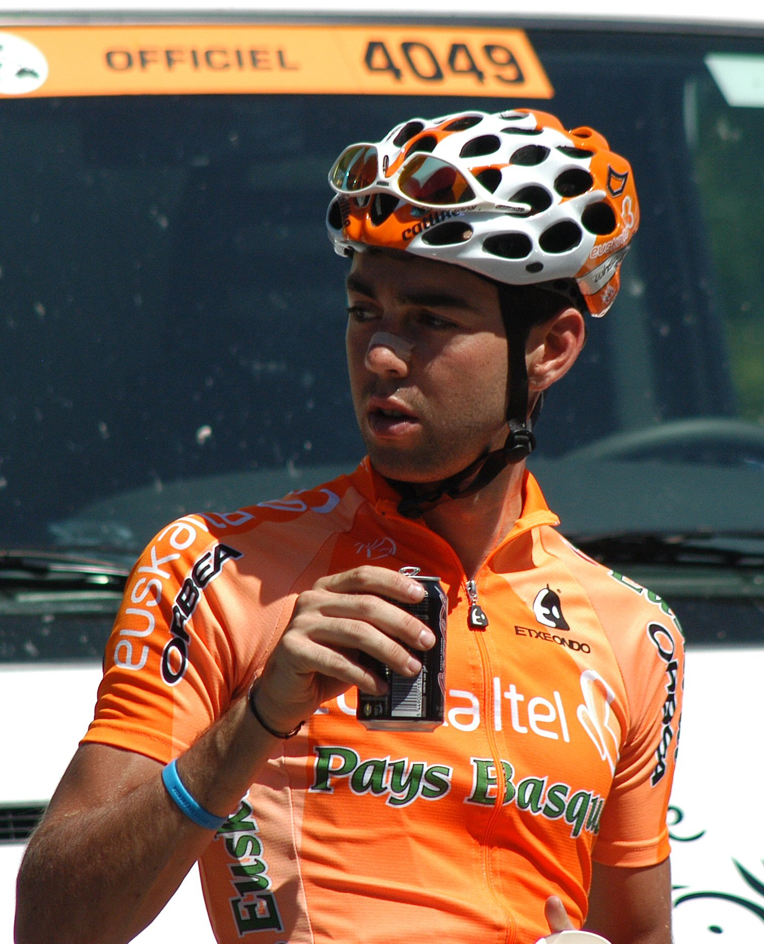 Jorge Azanza Soto at the start of stage 8 in Le Grand Bornand, Tour de France 2007.